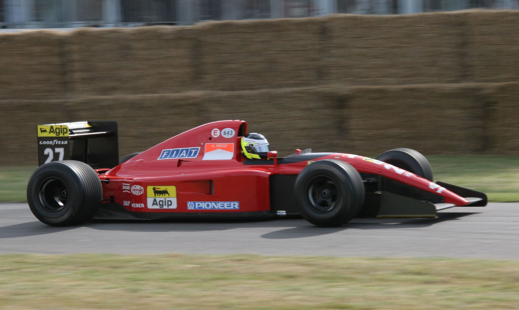 1991 Ferrari F1 Car at the 2006 Goodwood Festival of Speed